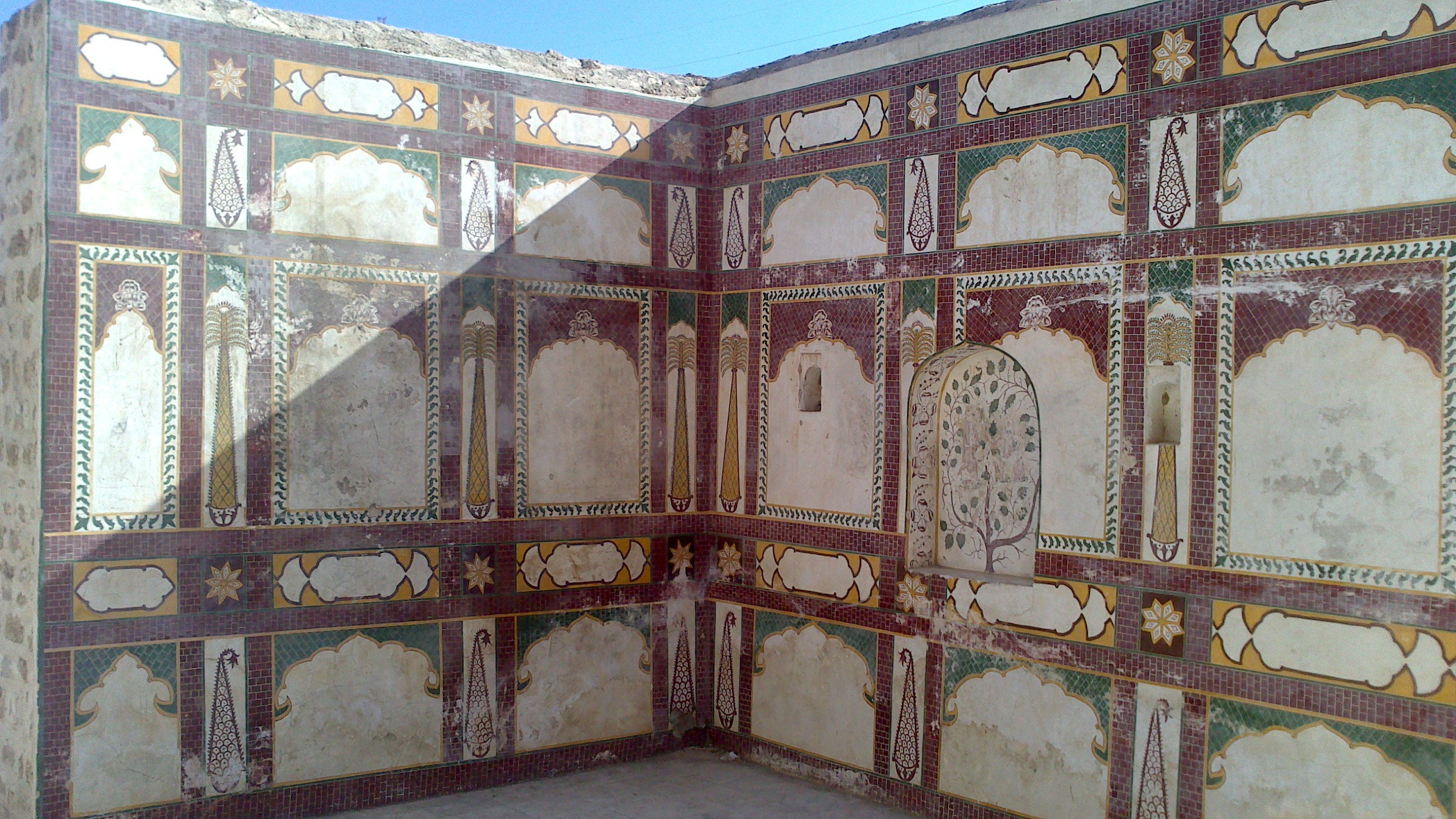 Satghara Temple This is a photo of a monument in Pakistan identified as the PB-38